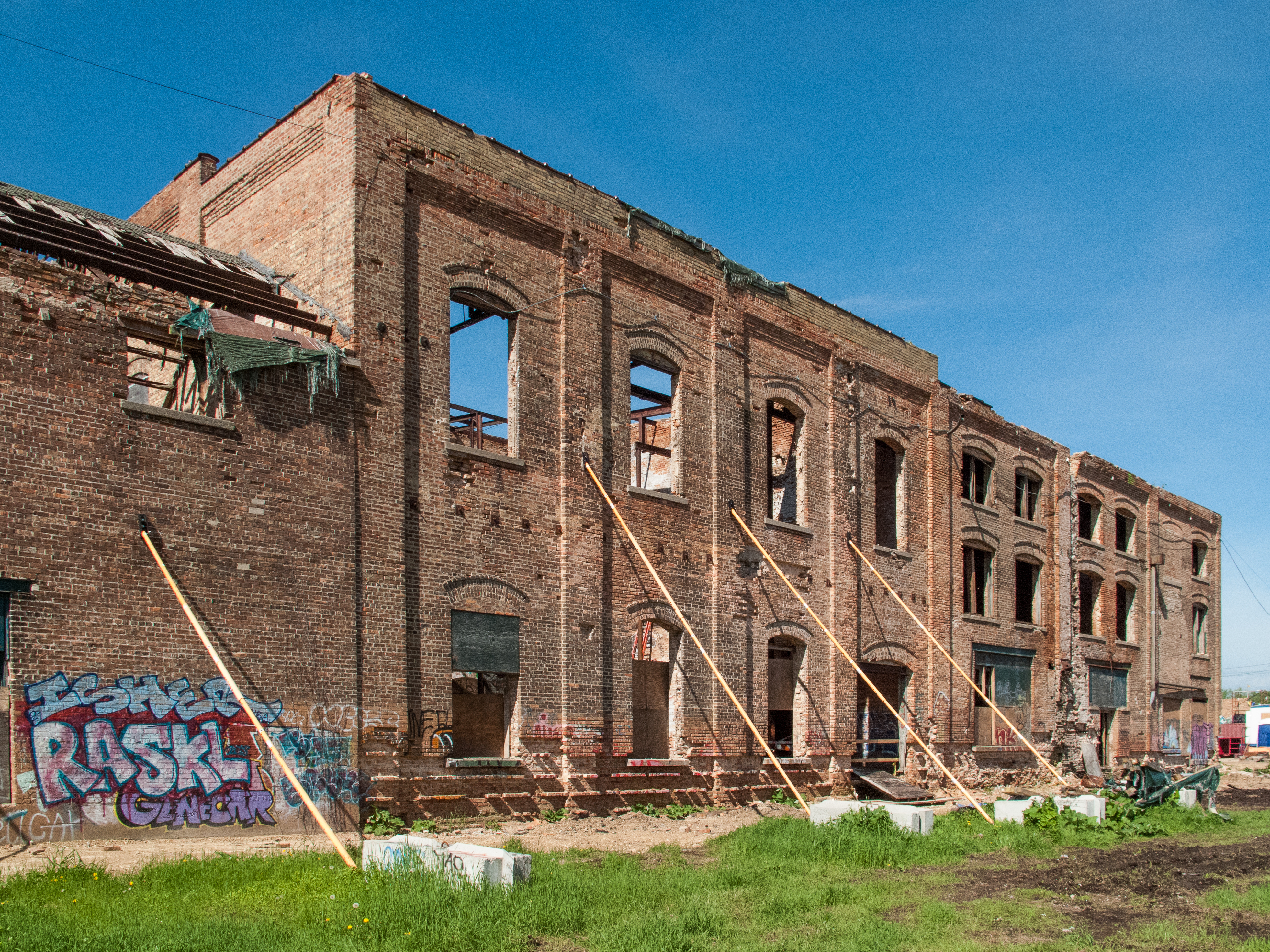 The north facade of Garver Feed Mill during renovation in May 2018.